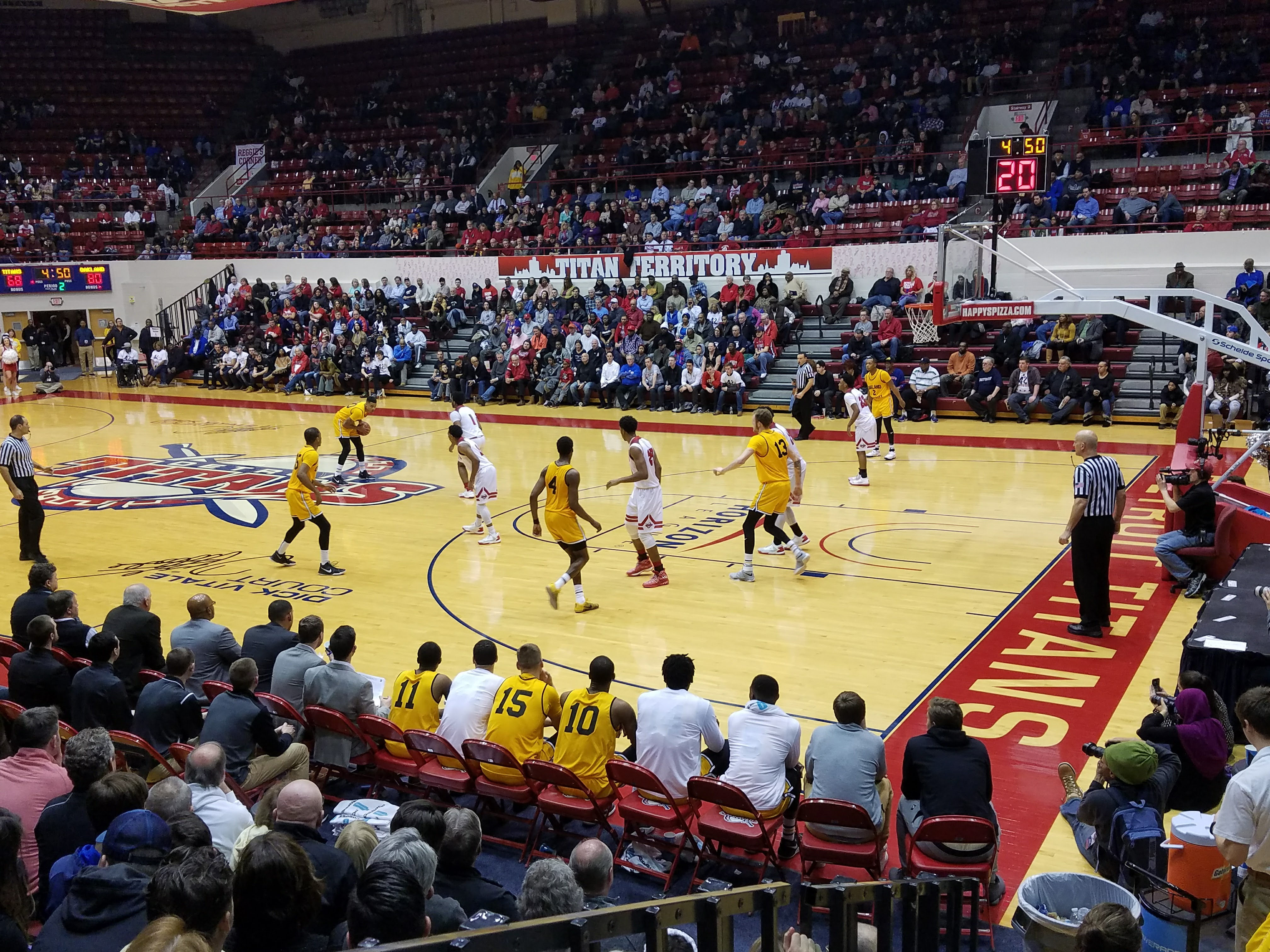 Second half of an NCAA Division I men's basketball game between the Oakland University Golden Grizzlies and the University of Detroit Mercy. The game took place at Calihan Hall in Detroit, Michigan.